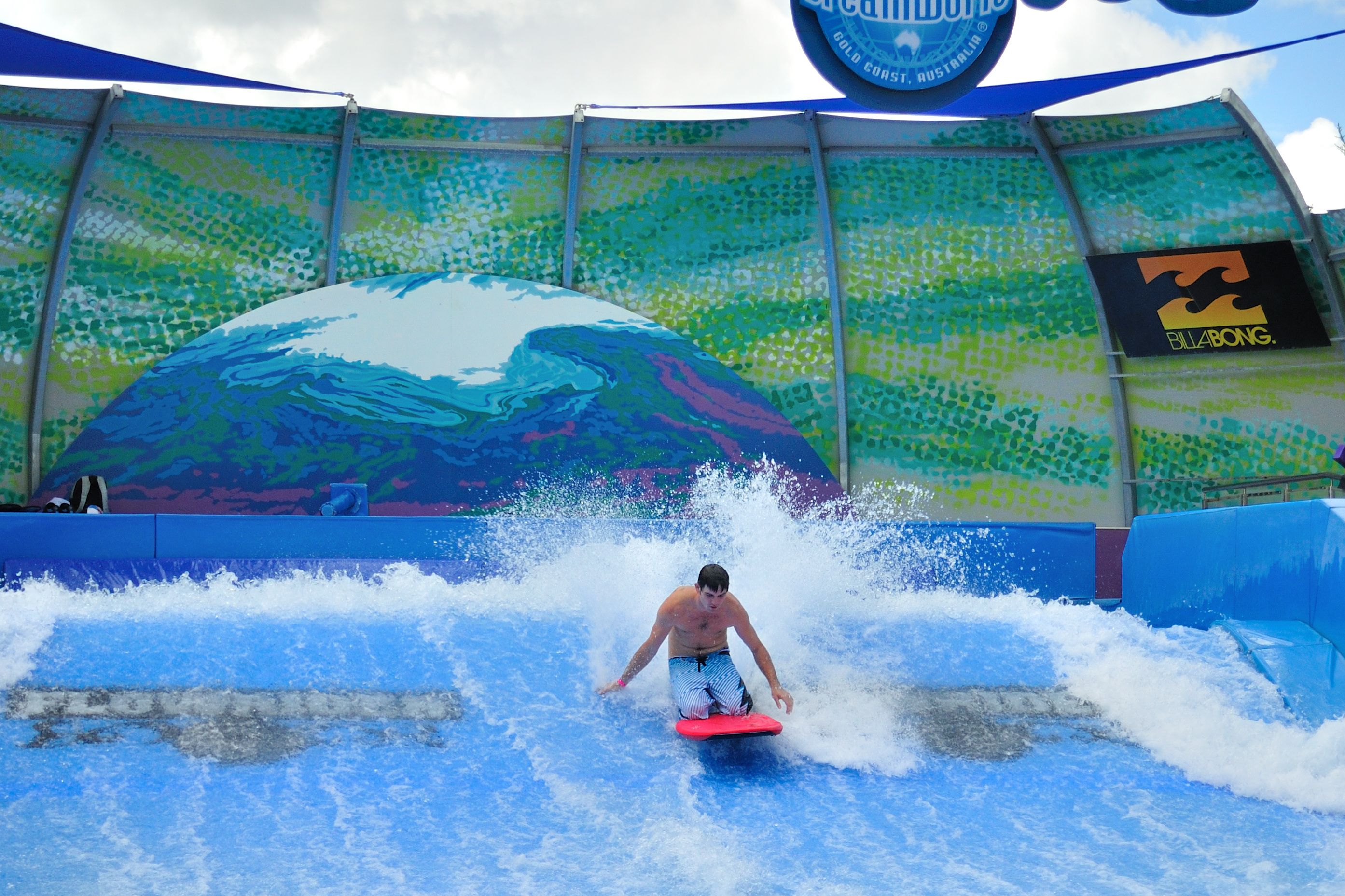 $5 for 1/2 hour